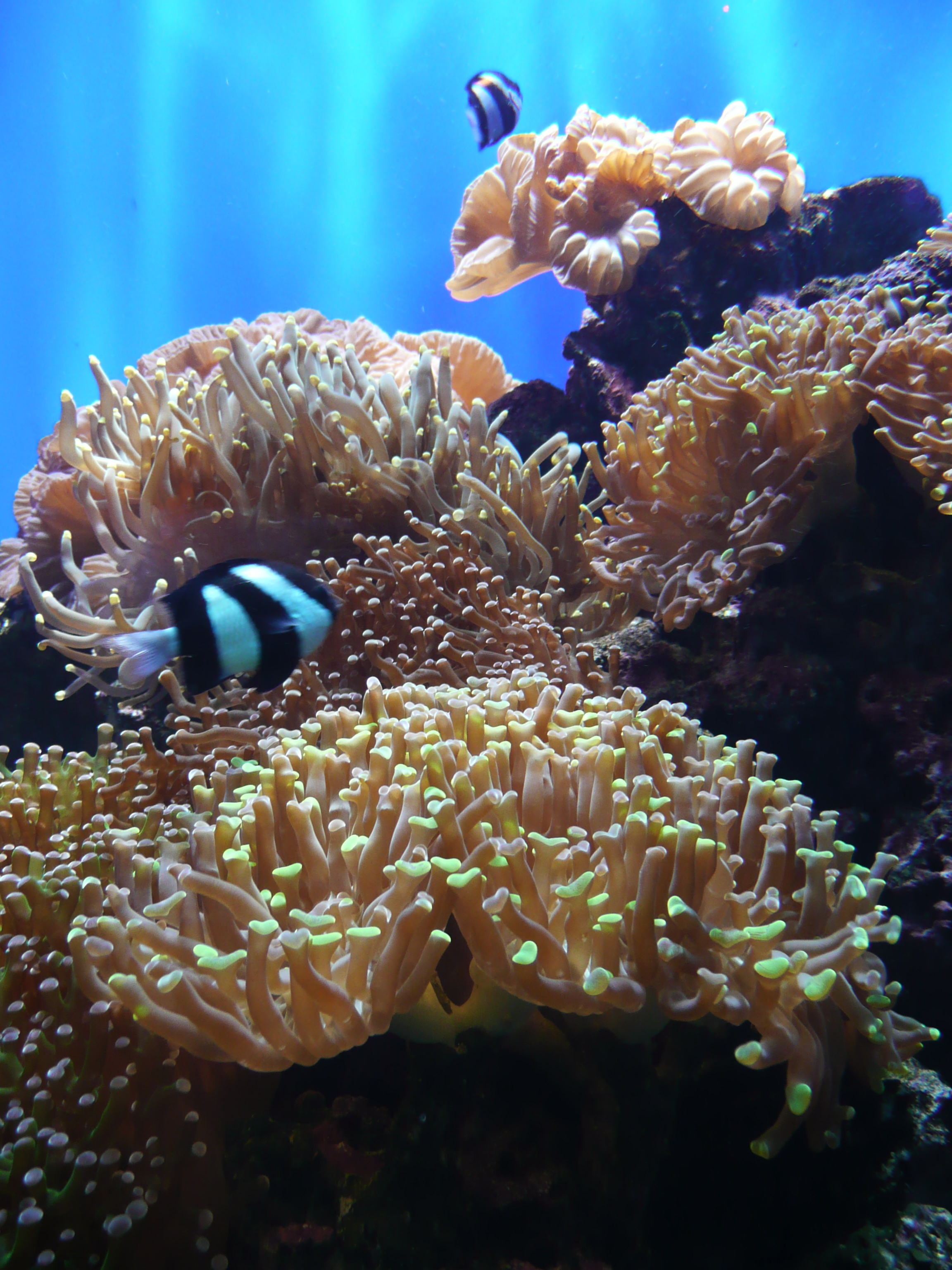 Images from London Zoo. Location: NW1 4RY